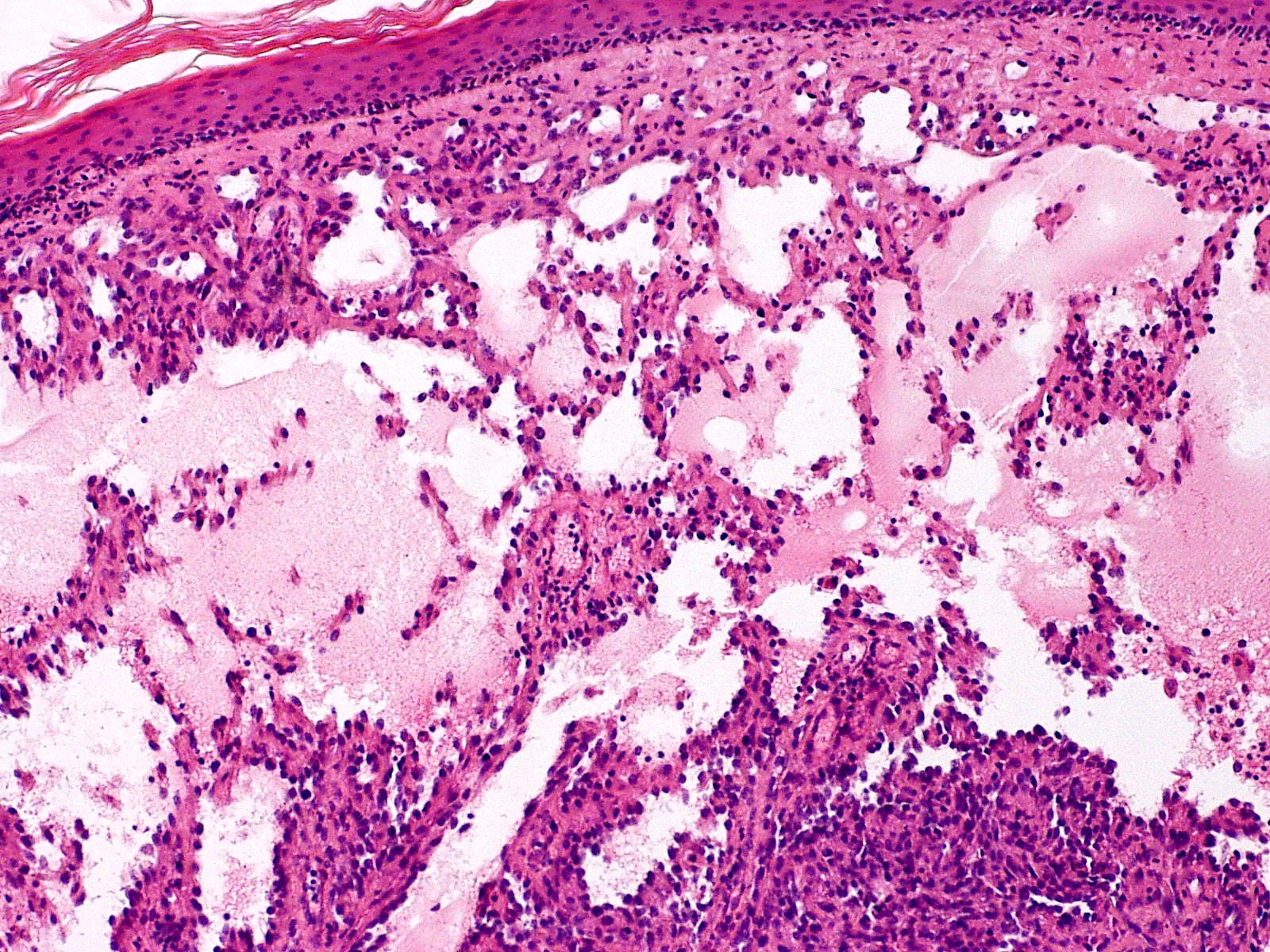 Proliferating lymphangioma